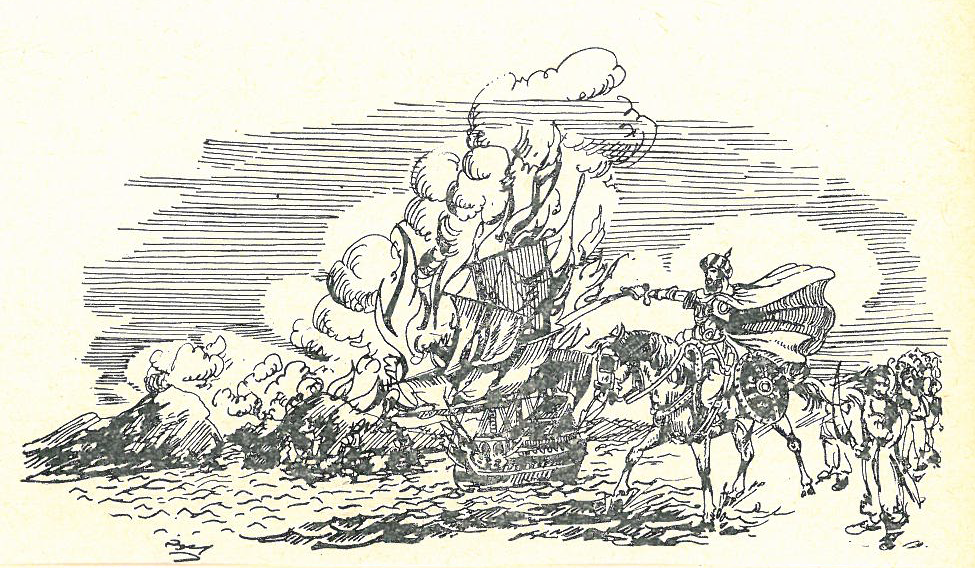 A drawing of the story of Ṭāriq ibn Ziyād's burn of the Muslim Ships to prevent Muslims from withdrawing from fighting the Visigoths.